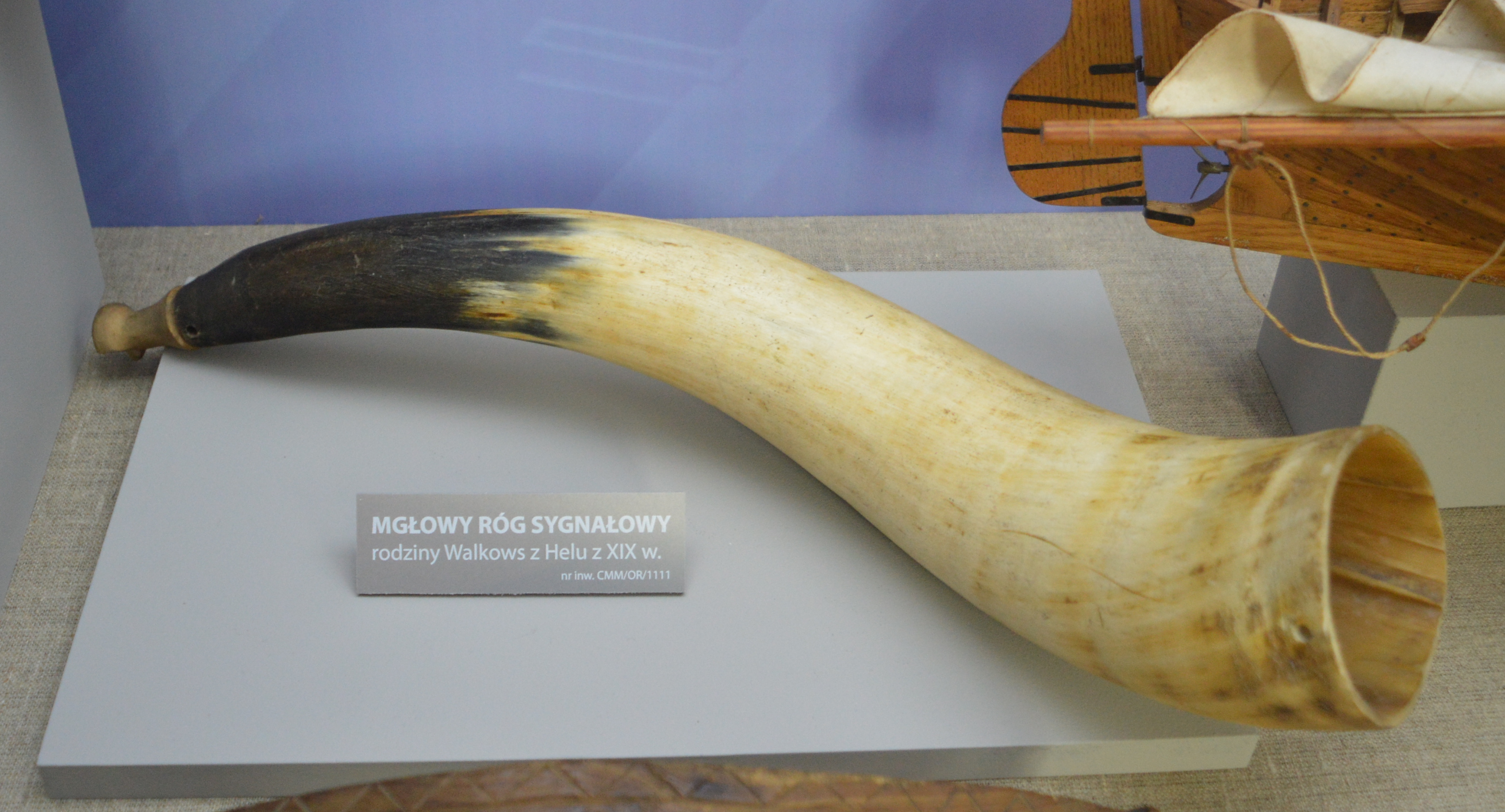 Horn used by Hel fishermen in XIX century to give fog signals. Exhibit in Museum of Fishery in Hel, Poland.